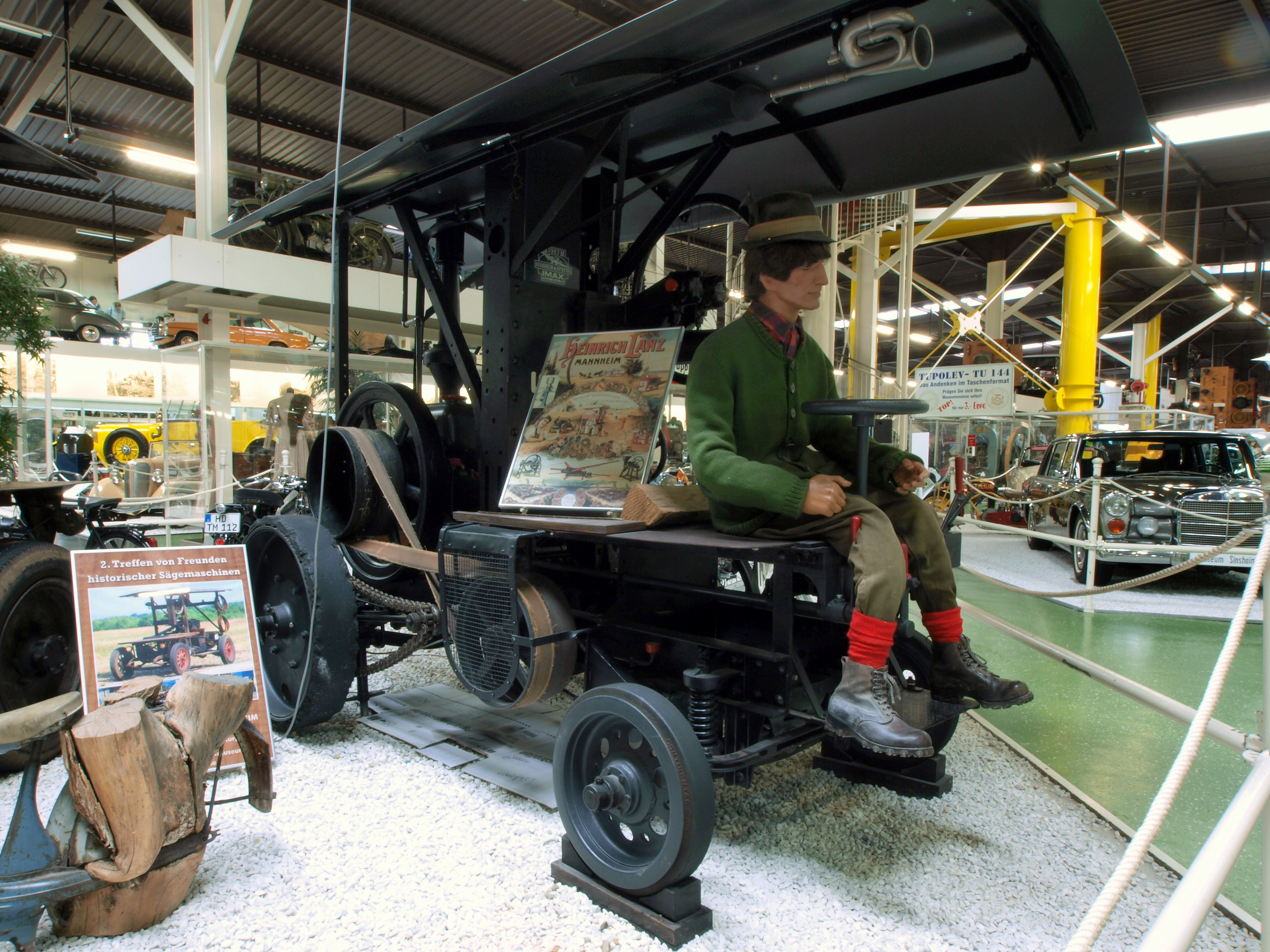 Photographed at the Auto & Technic museum Sinsheim.